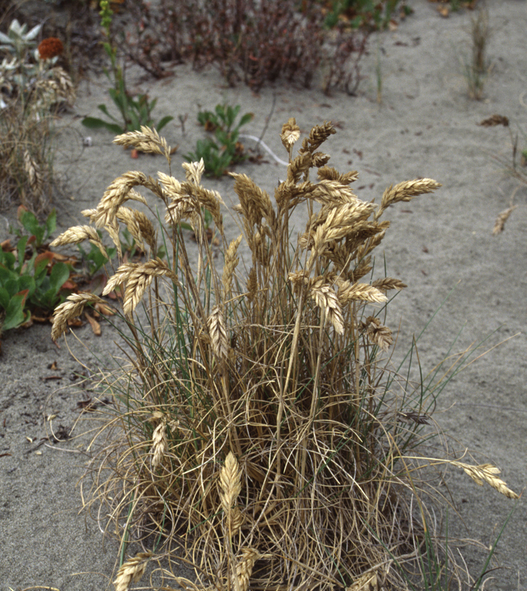 Poa macrantha at Humboldt Bay National Wildlife Refuge Complex, California, USA